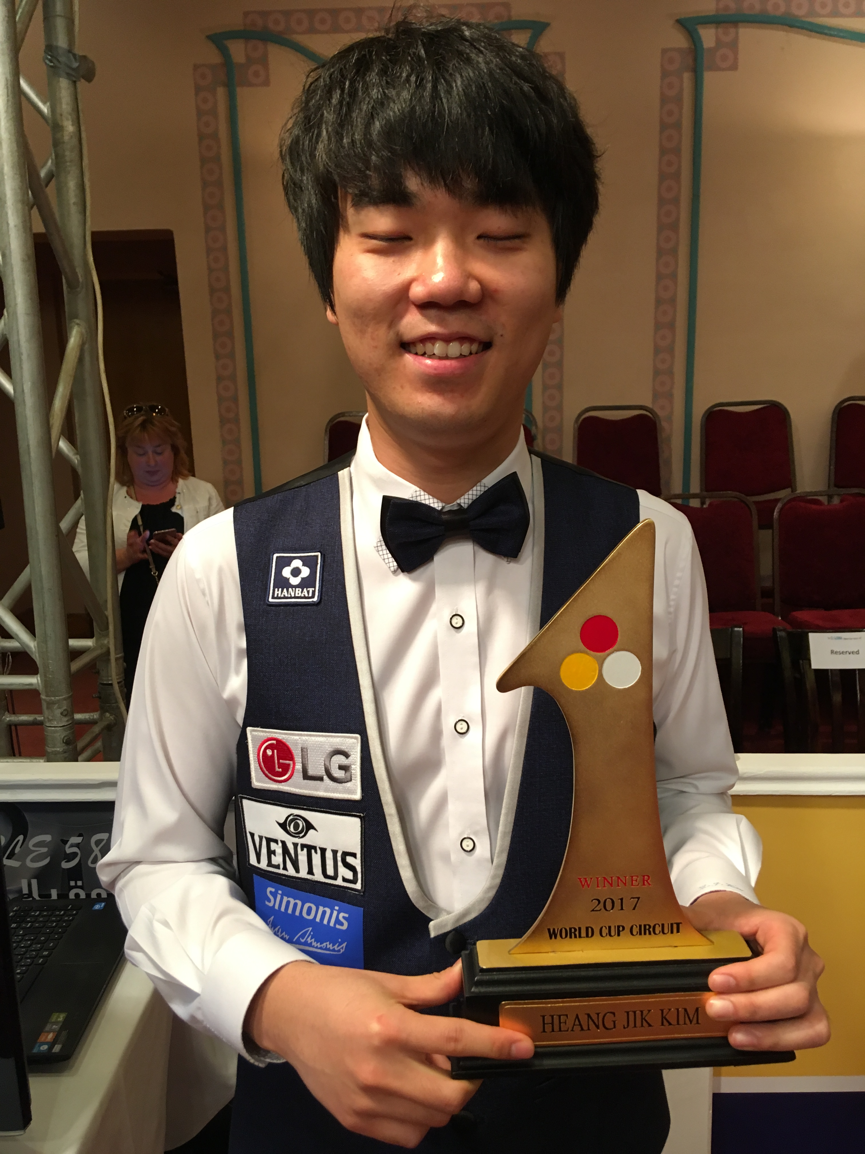 see file name